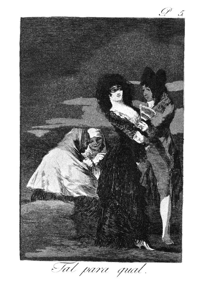 Los Caprichos is a set of 80 aquatint prints created by Francisco Goya for release in 1799.